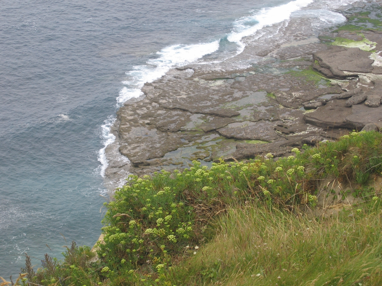 Rock samphire, Crithmum maritimum. This photograph was taken on 2008-07-25 near the port of Bilbao in the Bizkaia province of the Basque Country (Europe), using a Canon PowerShot S50 camera.The original size was 2592x1944 pixels, it was reduced to the present size (1296x972 pixels) using the IrfanView freeware program.